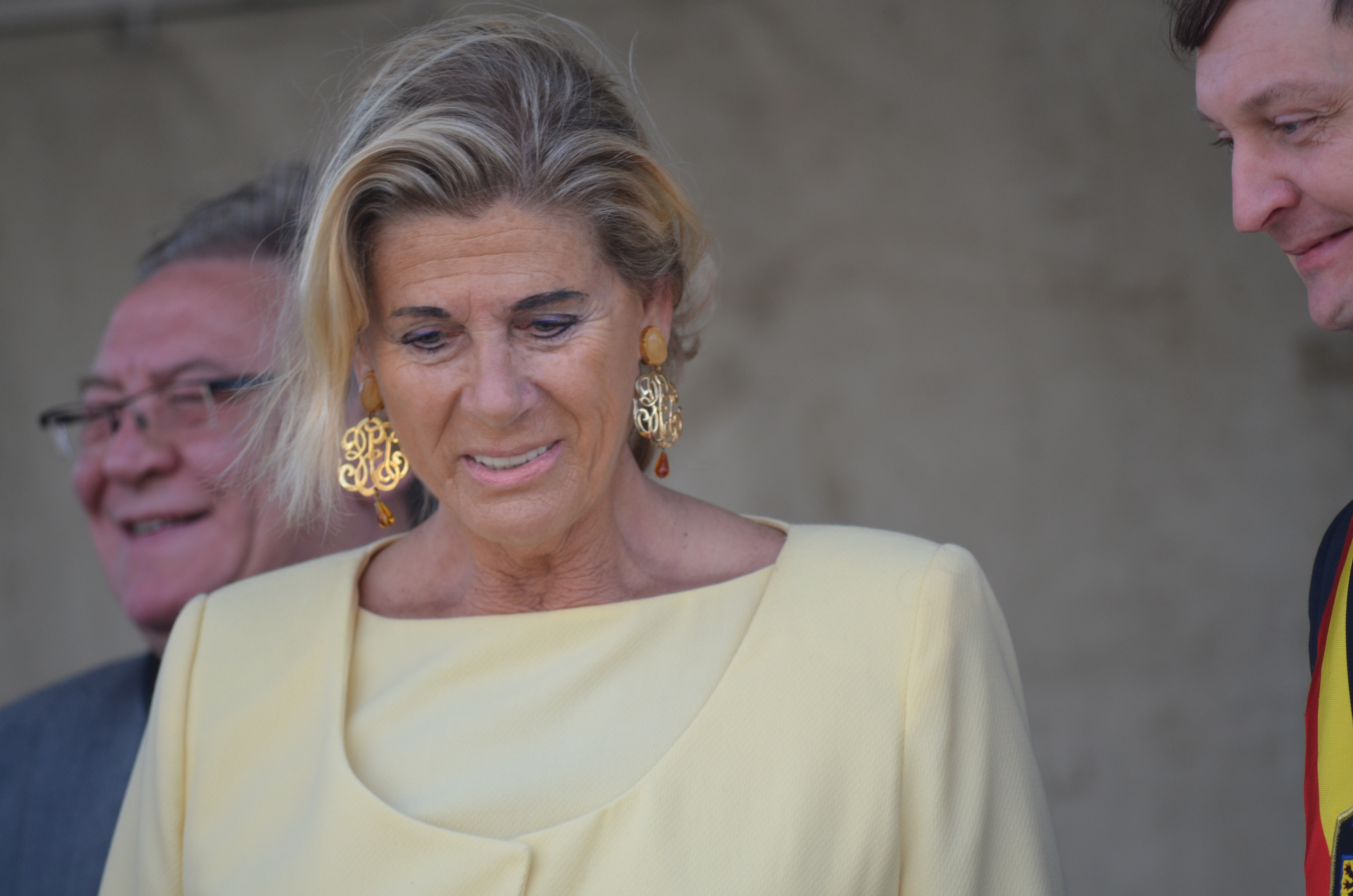 Princess Léa of Belgium